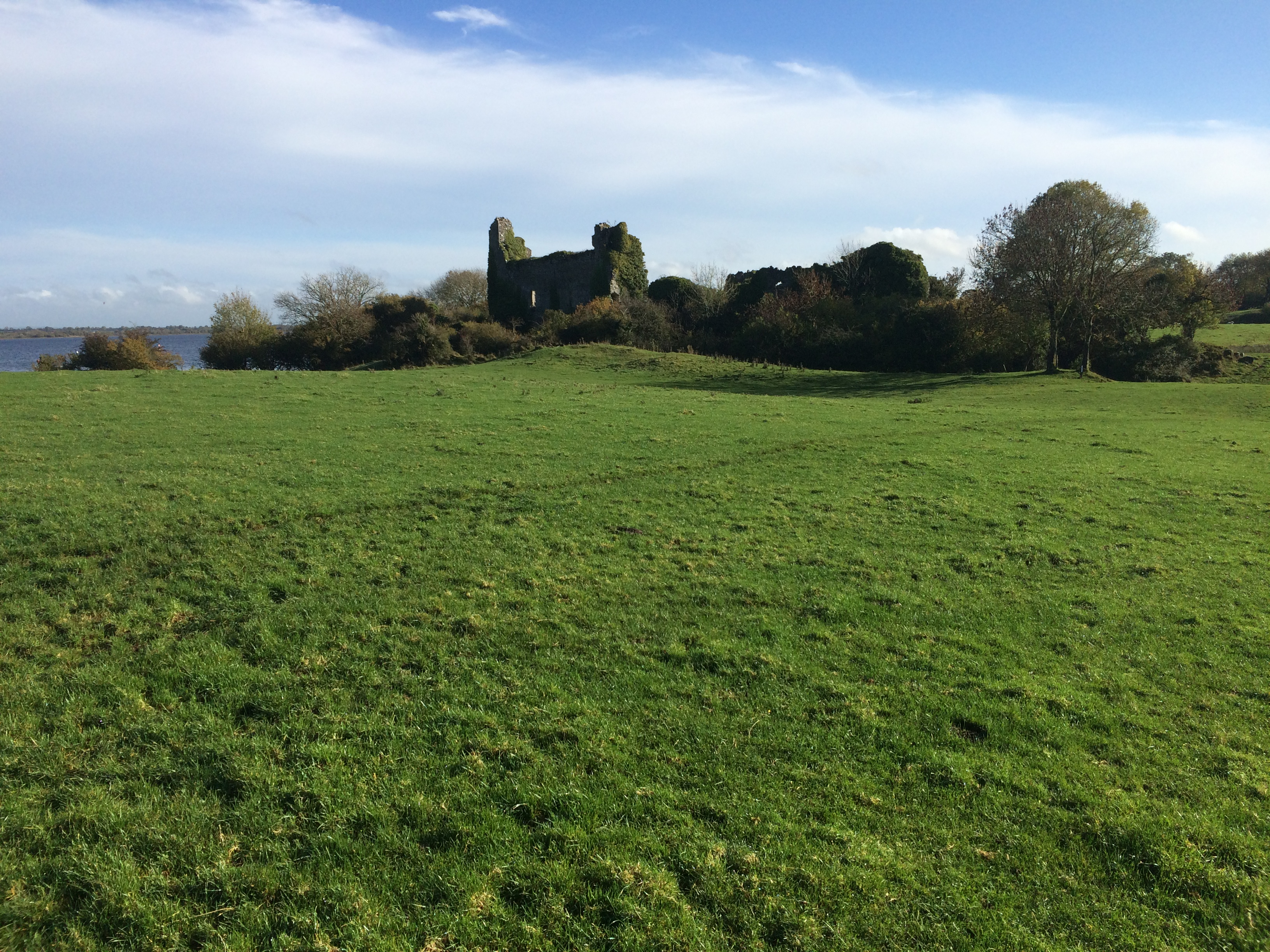 Rindoon 28-10-2015 5